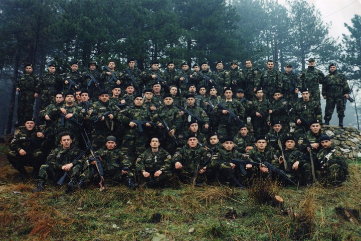 Photo I made of detachment of special intervention unit of police of Republic of Macedonia. Photo was made near Kumanovo on way to Matejce.